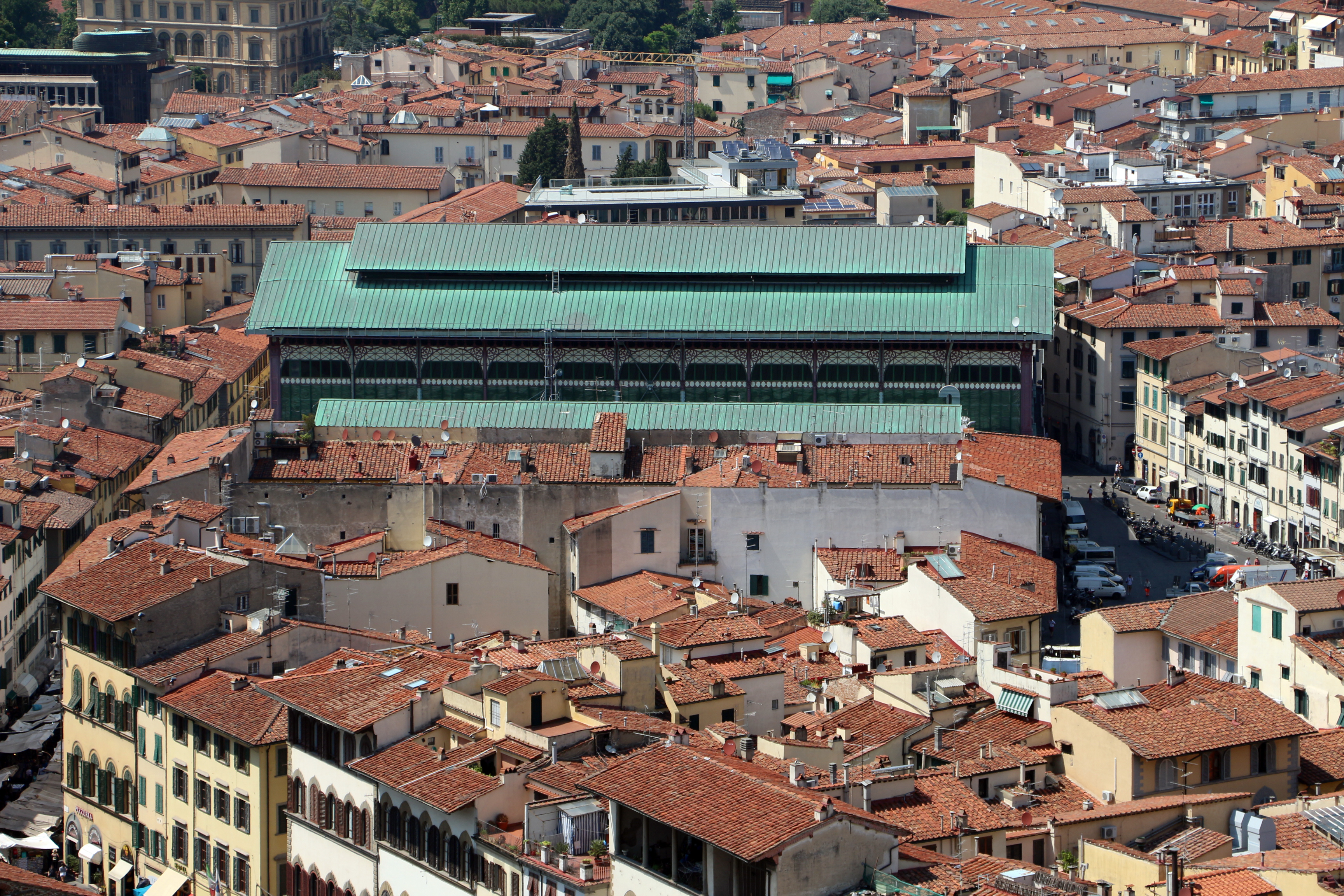 Santa Maria del Fiore (Florence) - Dome - View from